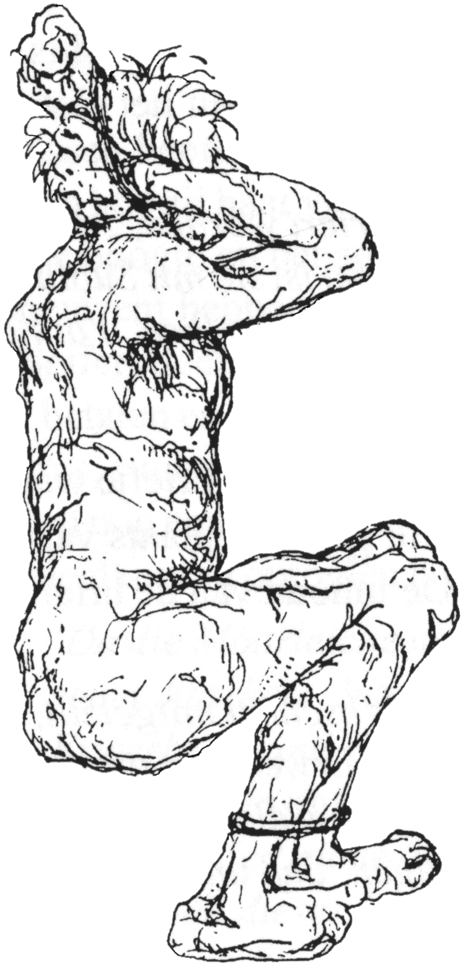 Drawing of the bog body Kreepen Man as found on 12 June 1903 in a bog near Kreepen near Kirchlinteln, Landkreis Verden, Lower Saxony, Germany. Dating to 15th to early 17th century AD (390 ± 60 BP).